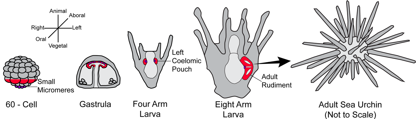 Left-right asymmetry in the sea urchin. During cleavage, mesoderm (red cells at 60-cell stage) and small micromeres (purple cells at vegetal pole) become specified. At the end of gastrulation, progeny of these two cell types contribute to the coelomic pouches (red and purple outpockets seen at the tip of the archenteron). During larval stages, the adult rudiment grows from the left coelomic pouch. After metamorphosis, that rudiment grows to become the adult. Embryonic axes are shown relative to the 60-cell cleavage and gastrula stages. The aboral-oral axis is also known as the dorsal-ventral axis. The animal-vegetal axis is the only axis established prior to fertilization. Oral-aboral axis specification occurs early in cleavage, and left-right axis determination occurs at the late gastrula stage.